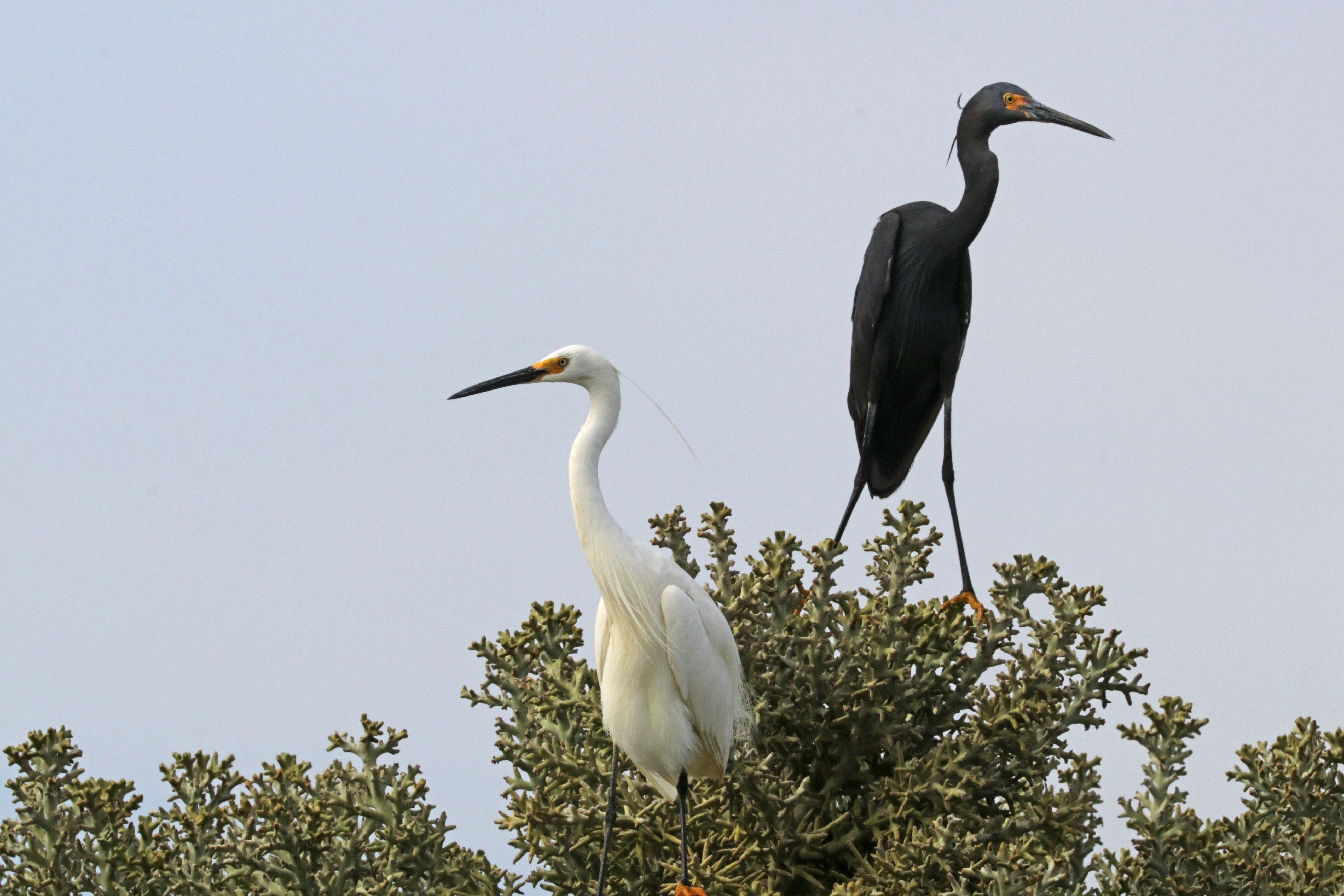 Dimorphic egret (Egretta dimorpha) white and black morph on Nosy Ve, Madagascar